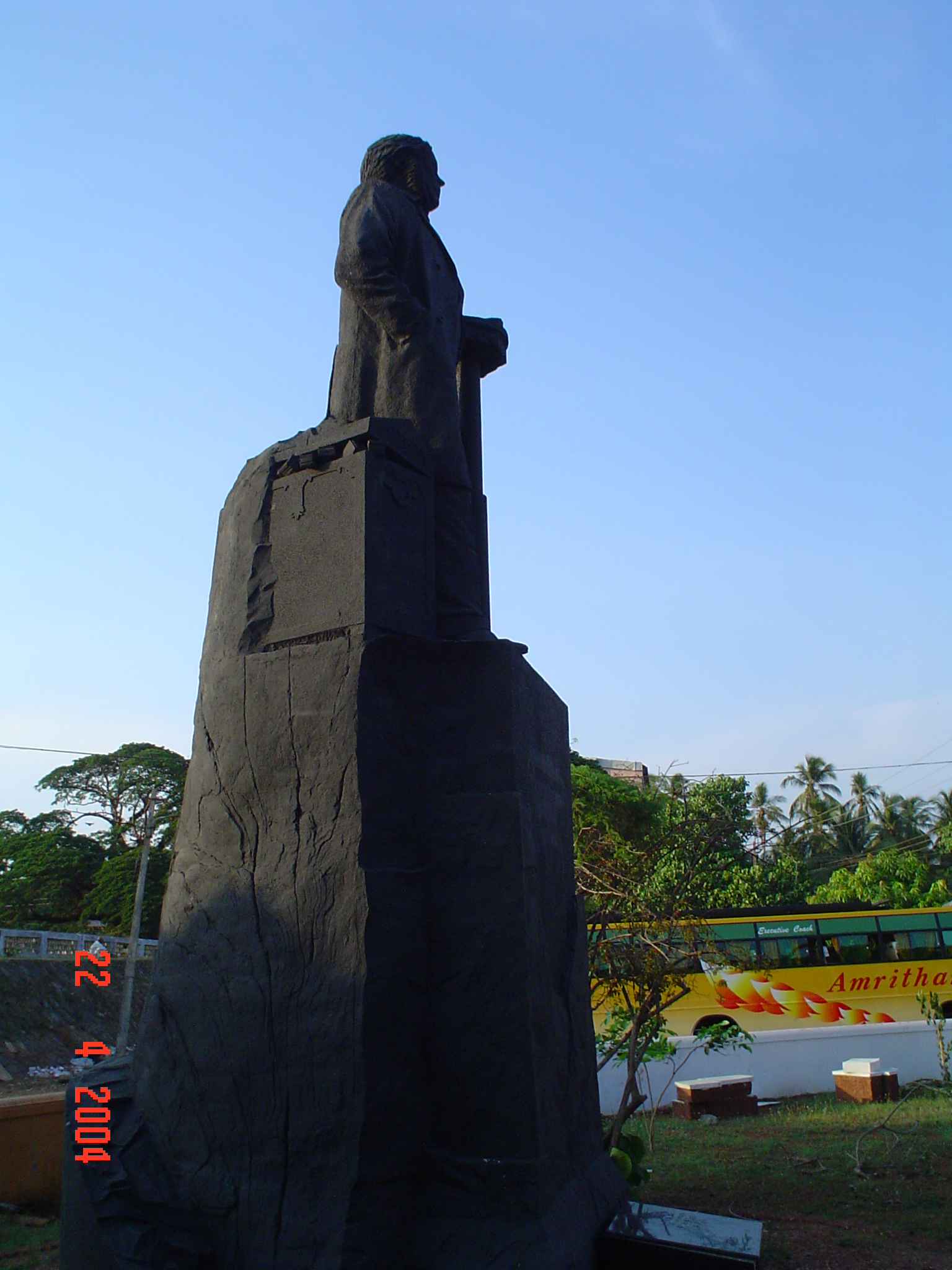 Herman Gundert Statue at Thalassery (near Thalassery Stadium). Photo by Atul/Shijaz